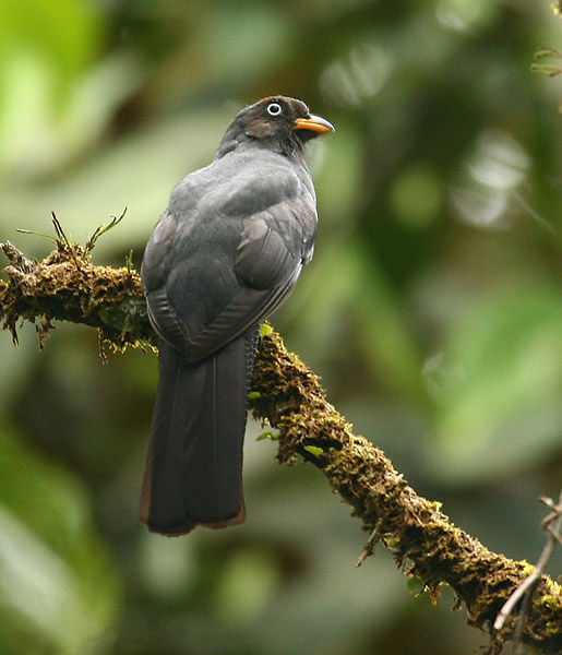 Lattice-tailed Trogon (Trogon clathratus) A female at Tapir Lodge, near Brauilo Carillo NP, Costa Rica.